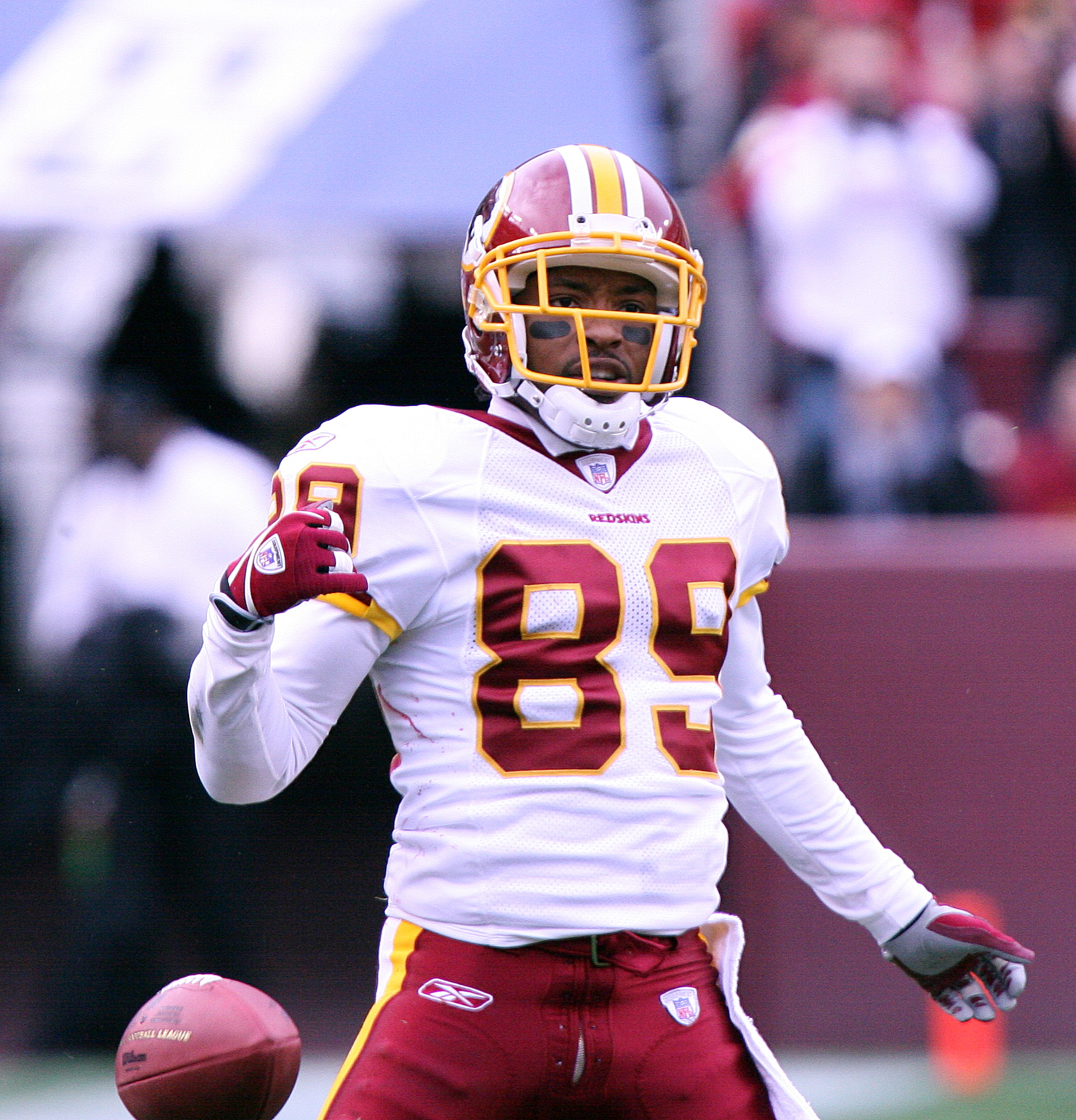 Santana Moss, #89, Washington Redskins